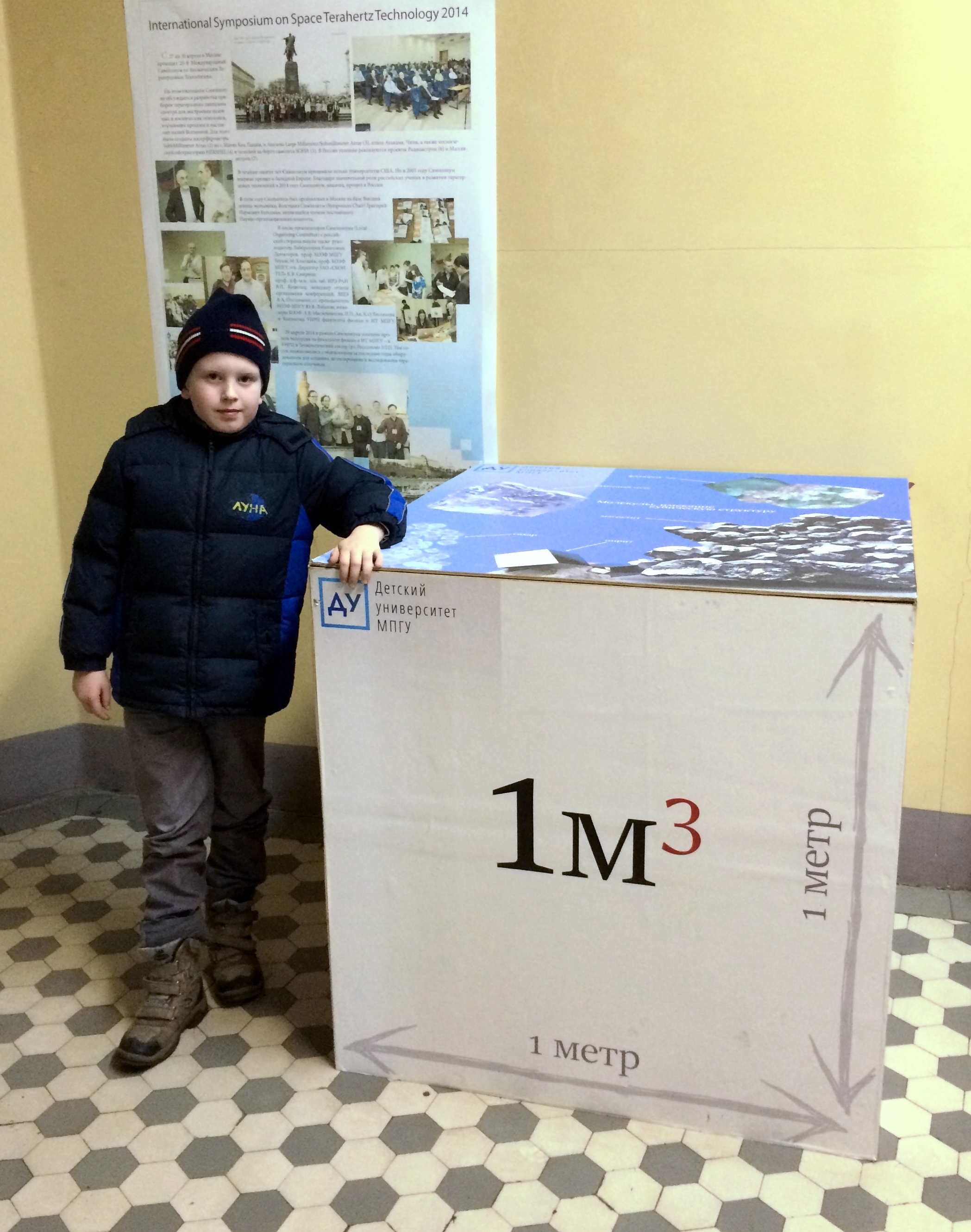 1 Square meter